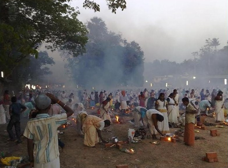 Pongala During Festival Season at Poovattoor Temple